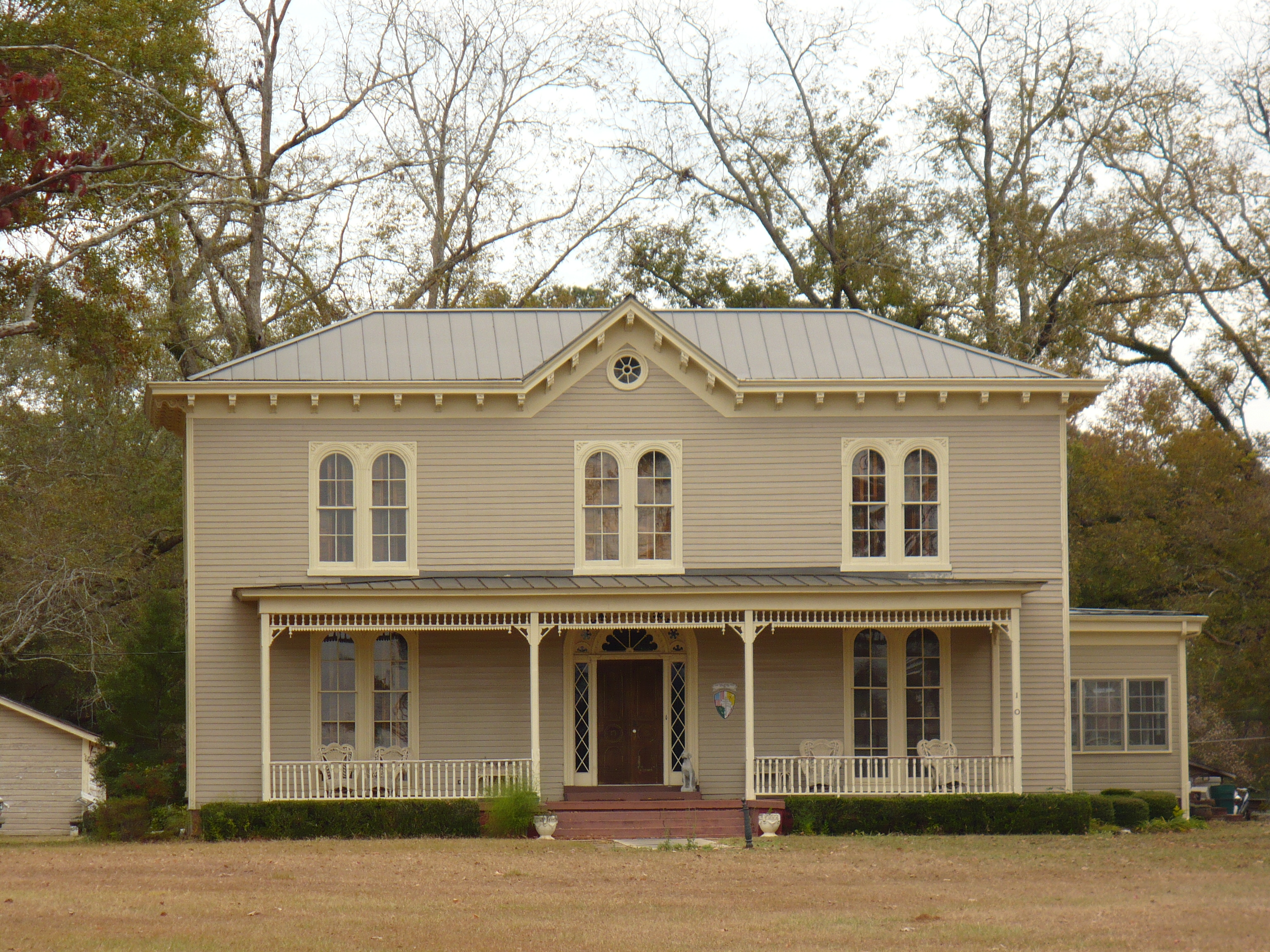 Dickinson House in Grove Hill, Clarke County, Alabama.